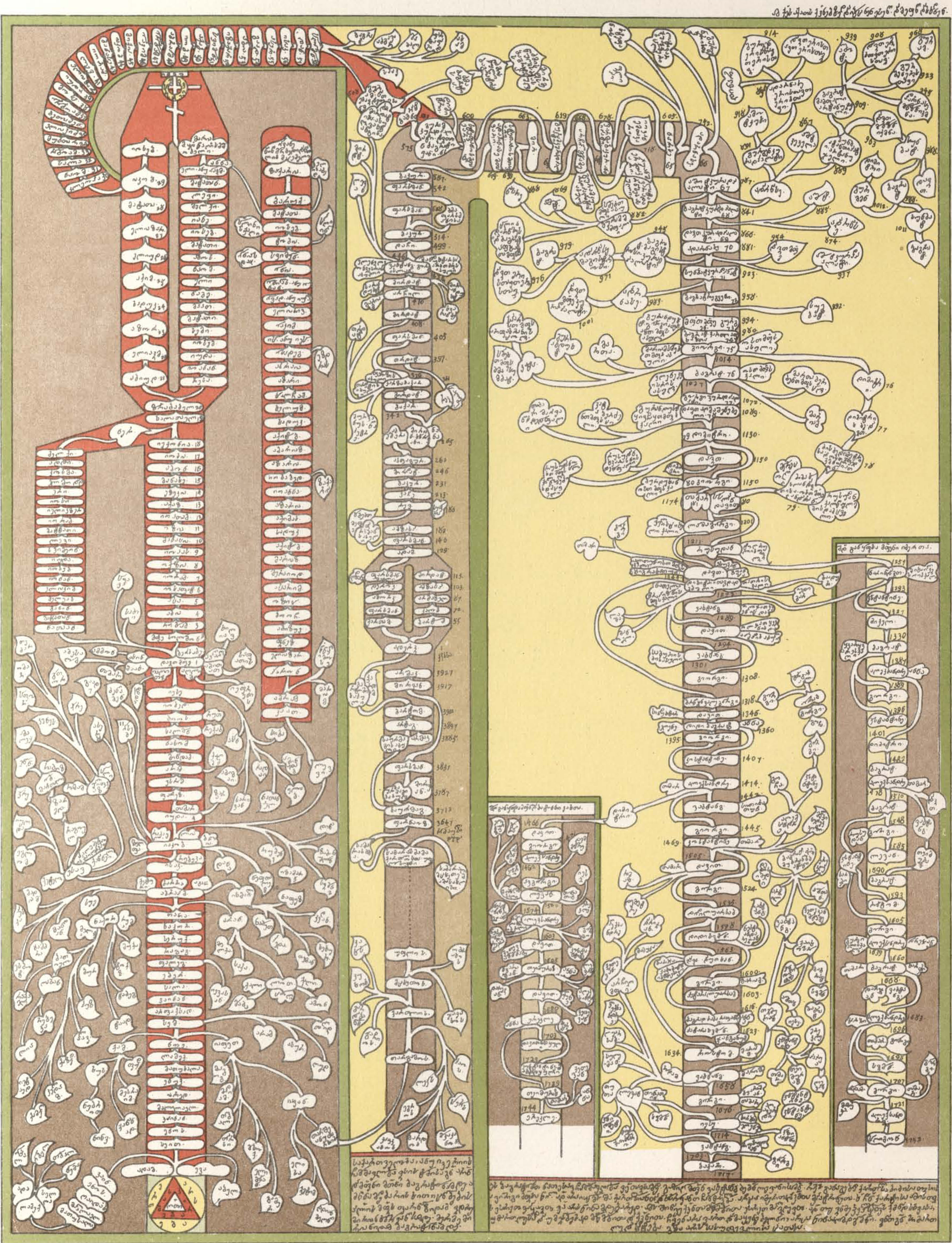 Vaxushti Bagrationi Genealogy of Georgian Kingdom